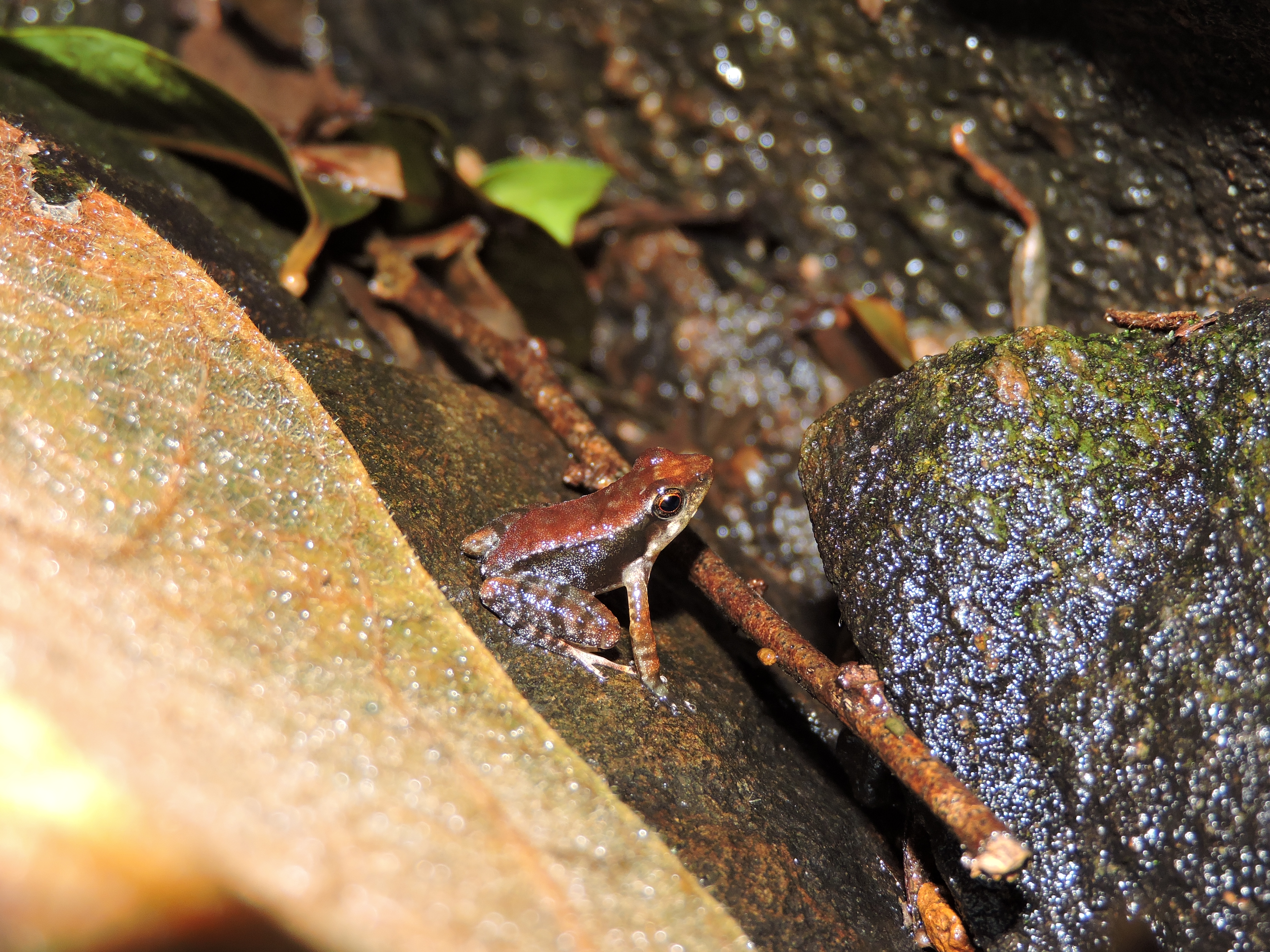 Picture of Micrixalus Elegans taken at Bisle village, Hassan district in Karnataka.